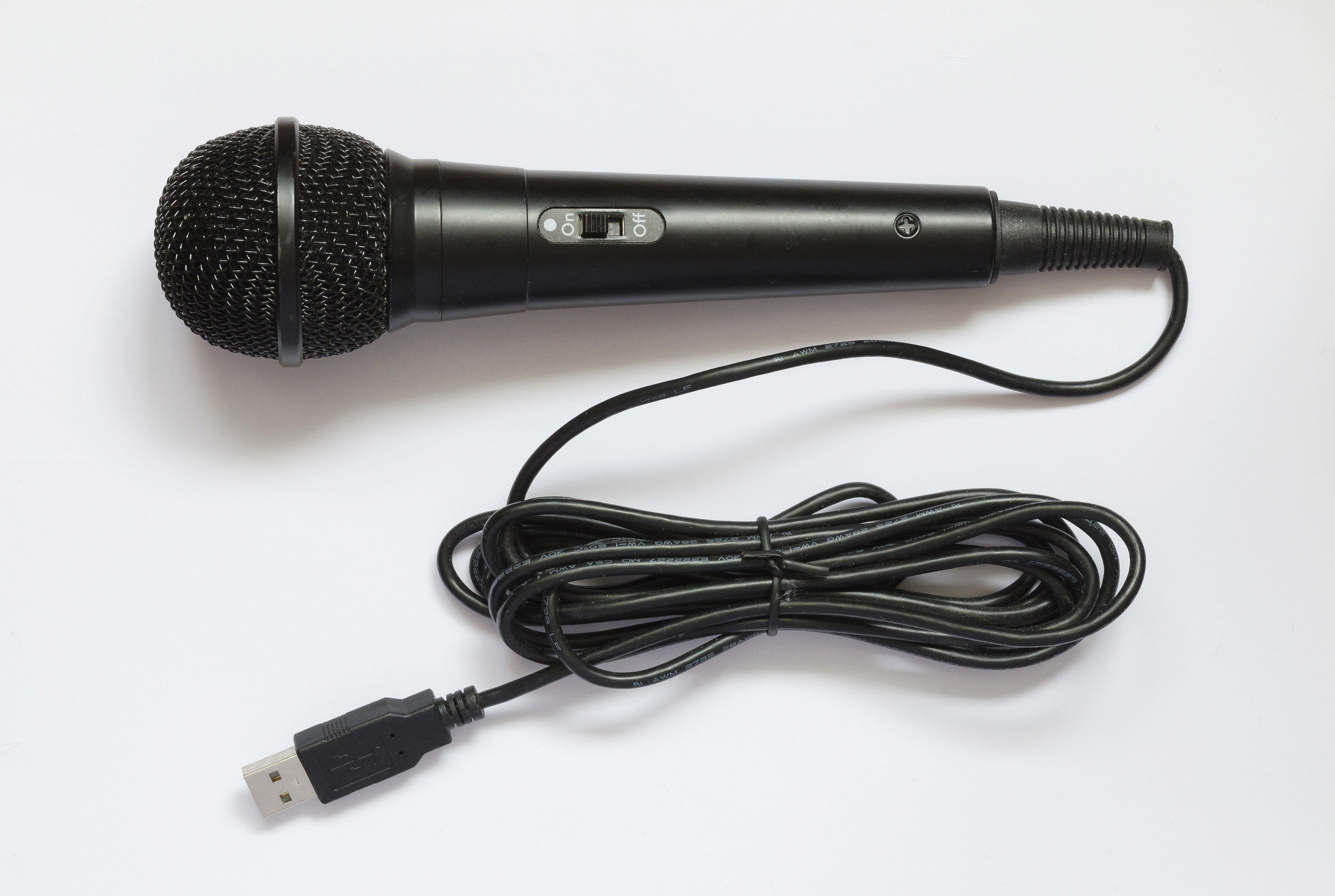 USB Microphone, 210 mm in length, manufacturer and model number unknown